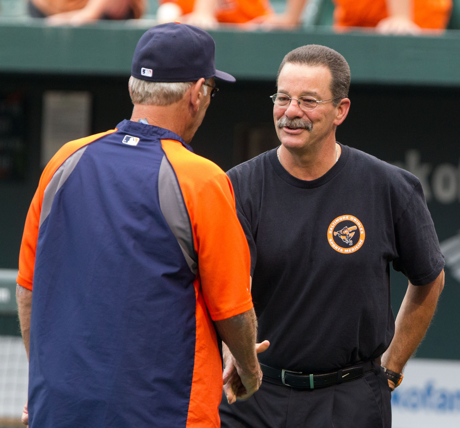 Tigers at Orioles July 13, 2012